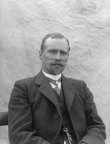 Sverre Hassel: This portrait was published in Amundsen, Roald (1912) "On the Way to the South" in The South Pole, An Account of the Norwegian Antarctic Expedition in the "Fram," 1910–1912, Volume 1, London: John Murray, pp. Opposite p. 101 Retrieved on 1 November 2011.